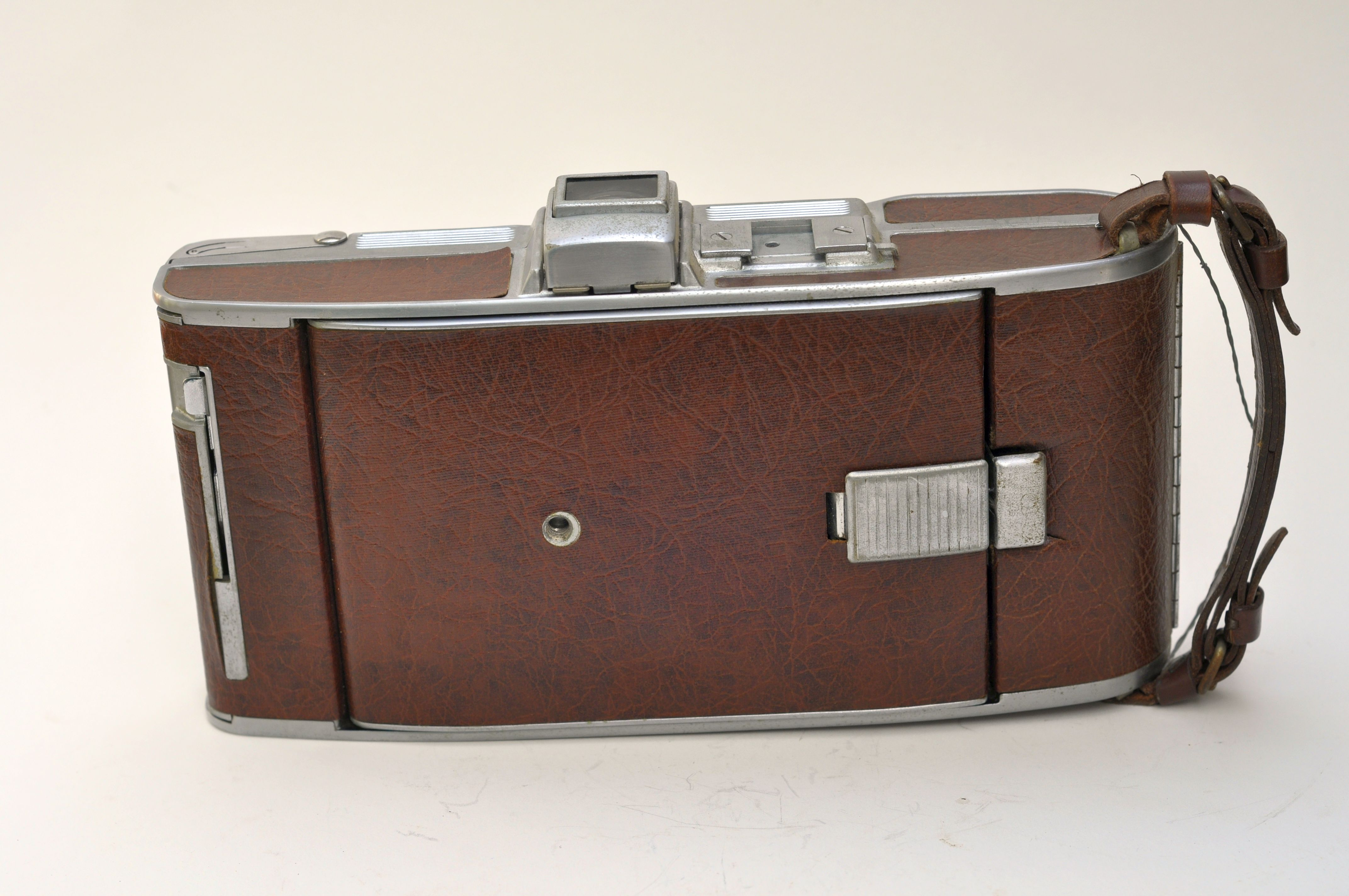 Polaroid Land Camera Model 95A from my collection.